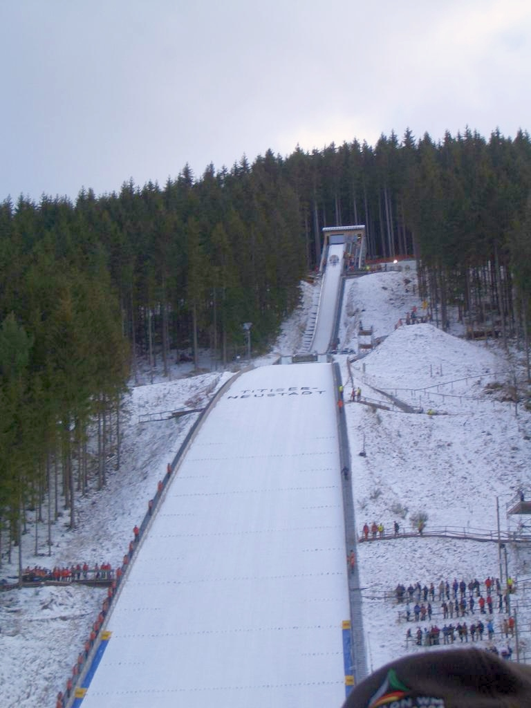 Ski jumping hill Hochfirstschanze in Titisee-Neustadt